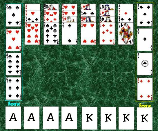 This is a diagram of the game of Tournament, based on a simulated layout. The image is made in Microsoft Paint and the cards used were based on the SVG Playing Cards.